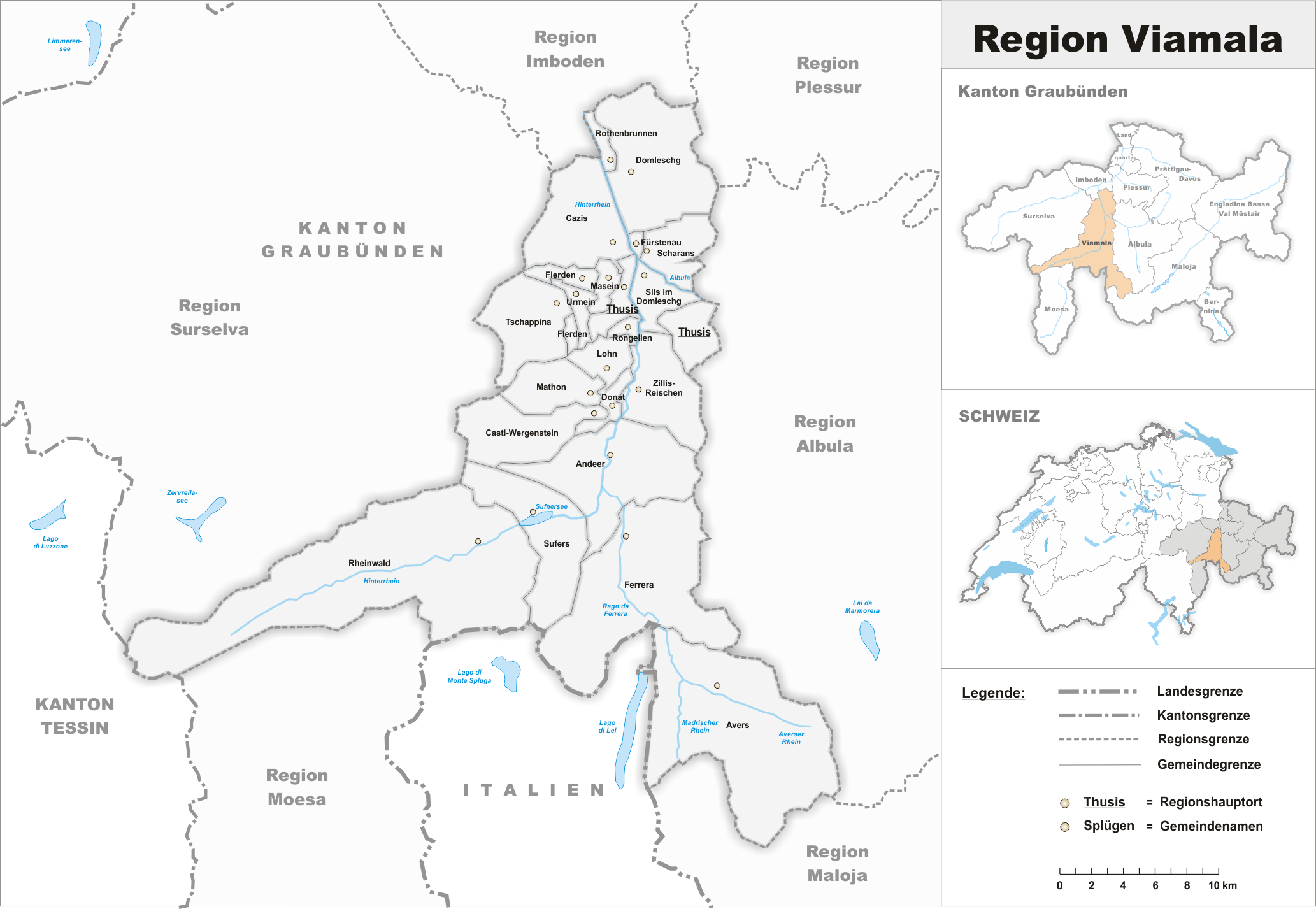 Municipalities in the district of Viamala